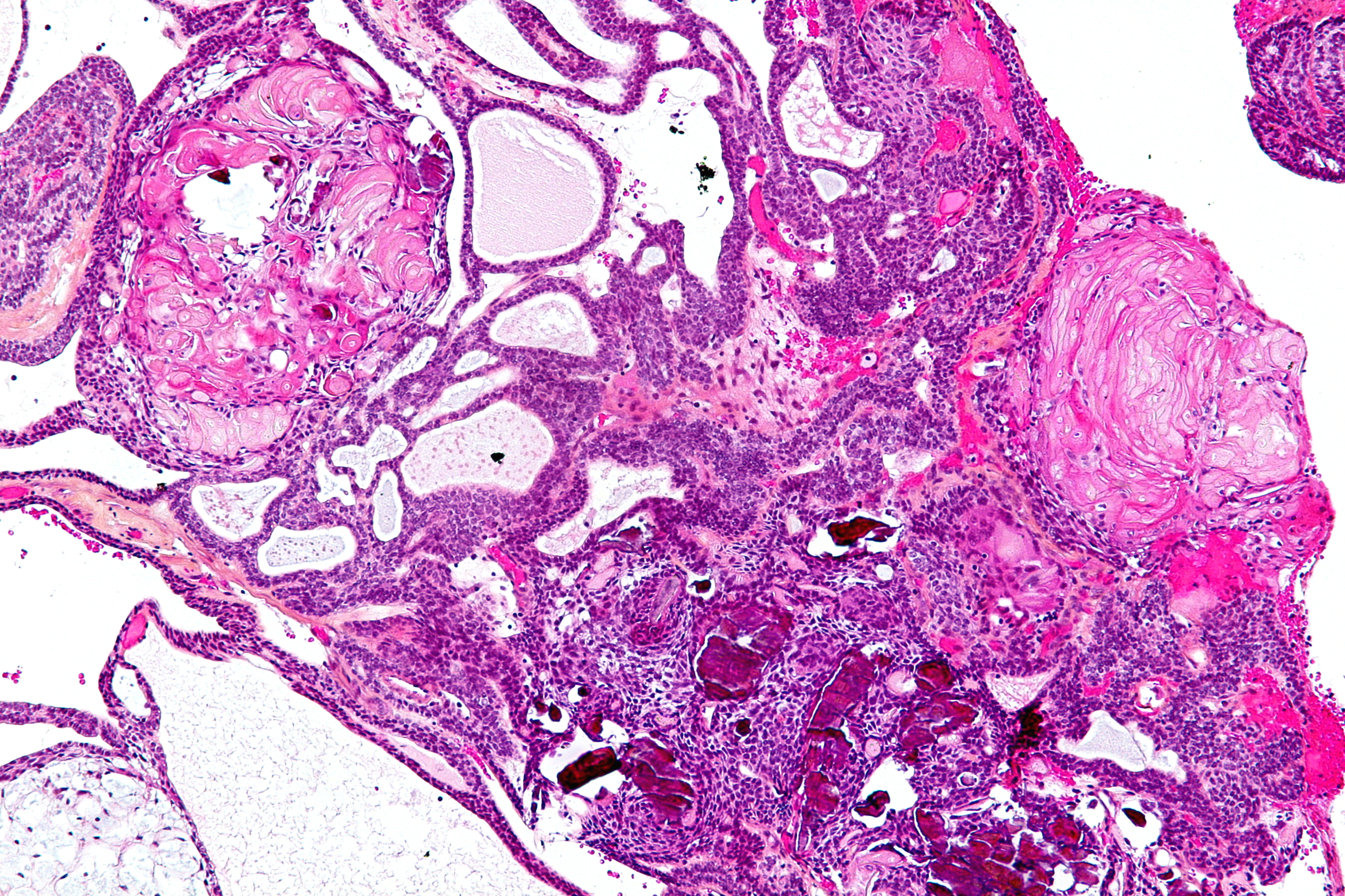 Intermediate magnification micrograph of an adamantinomatous craniopharyngioma. HPS stain. Features: Cystic spaces. "Wet" keratin. Calcifications. Related images Very low mag. Low mag. High mag. Very high mag.